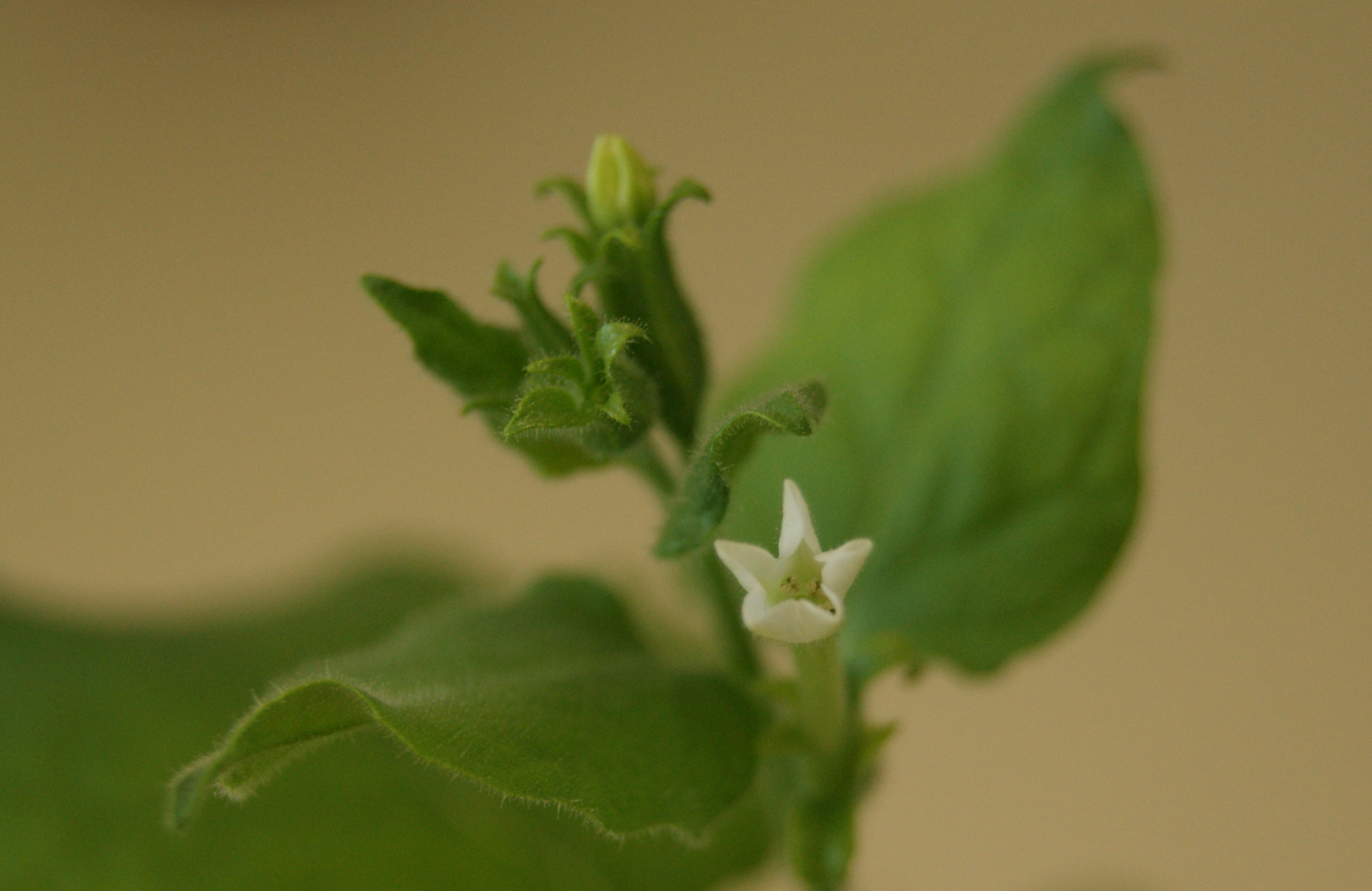 flower of Nicotiana benthamiana